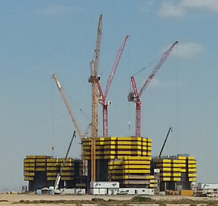 The Kingdom Tower being built in northern Jeddah, Saudi Arabia. Building progress as of 10-JAN-2015 (12 Floors). Picture taken from 800 meter distance of the building site.